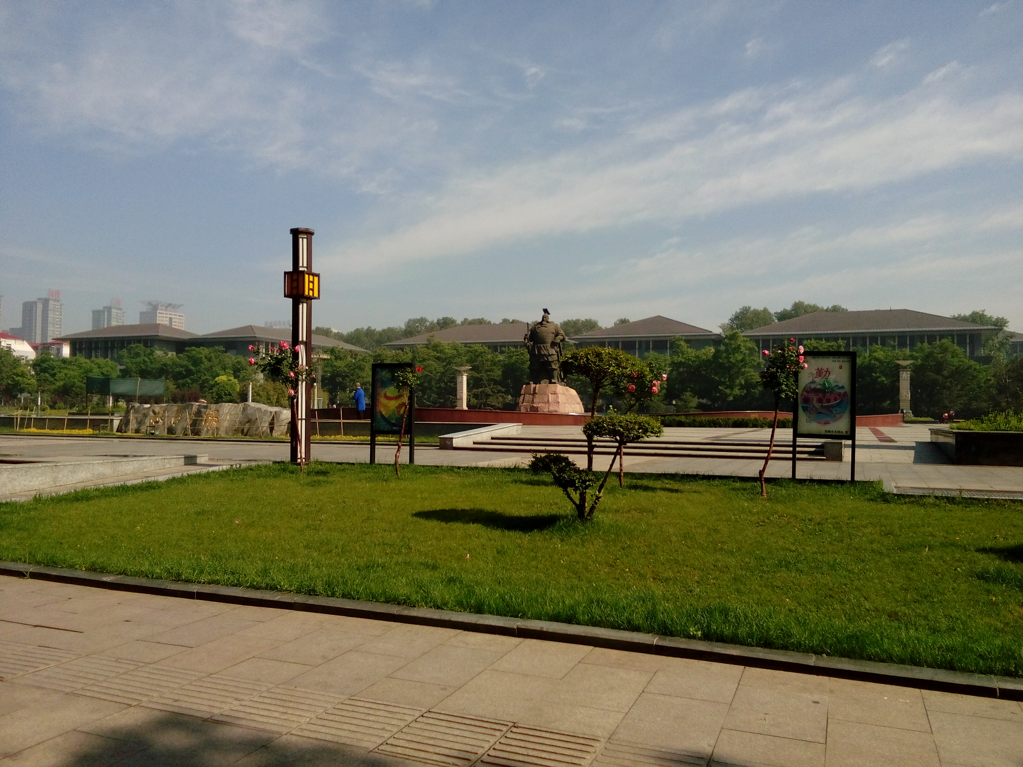 Congtai square in Handan City.